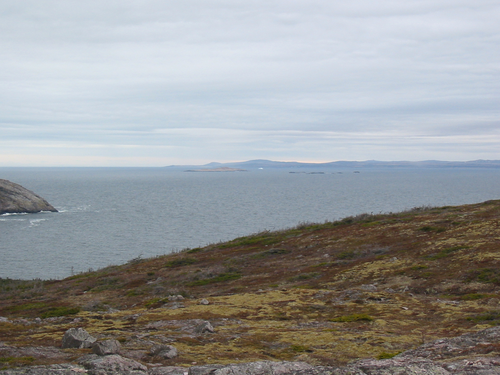 Green Island(s) from Saint Pierre island (France). Iceberg and Newfoundland in background. Taken May 14, 2008. Saint Pierre island is in the foreground Grand Columbier is on the left. Green island is the next bit of land seen then an iceberg. The hills in the background are Newfoundland.